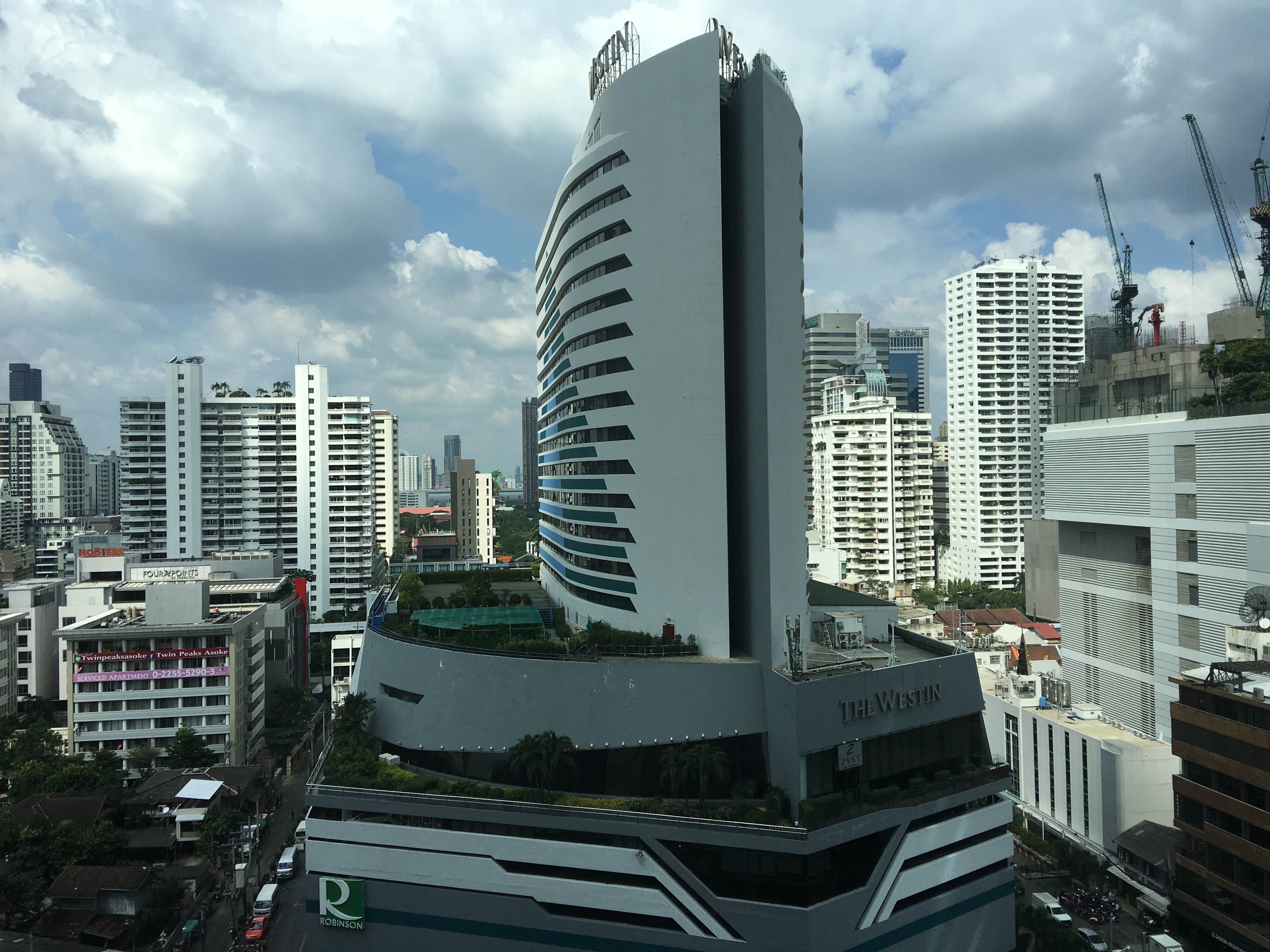 Scenery on the Sukhumvit Road, Bangkok